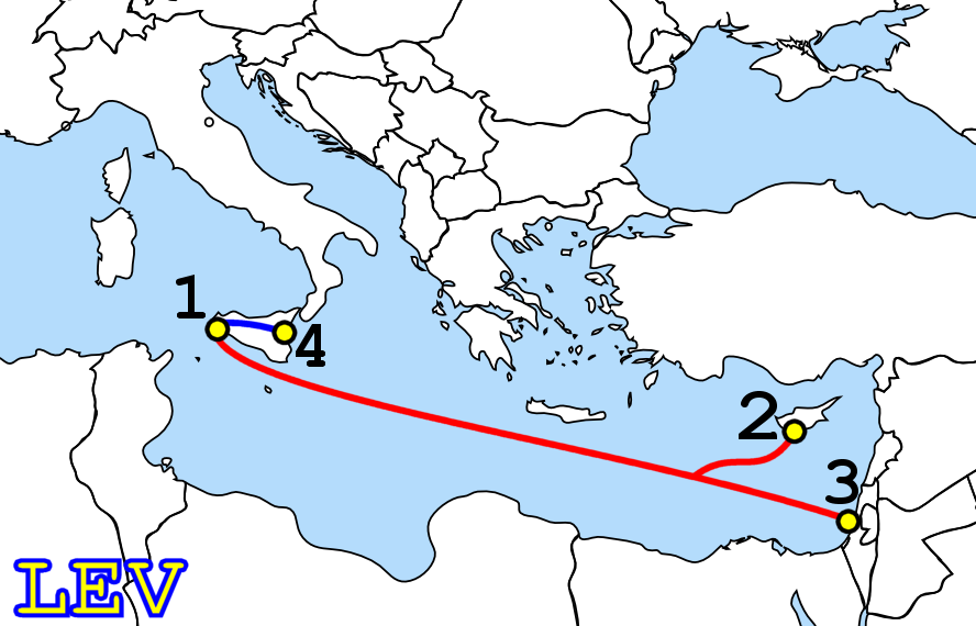 Route of the LEV Submarine communications cable. The red is submarine, the dark blue is terrestrial. For more information on the landing points, see Main article.